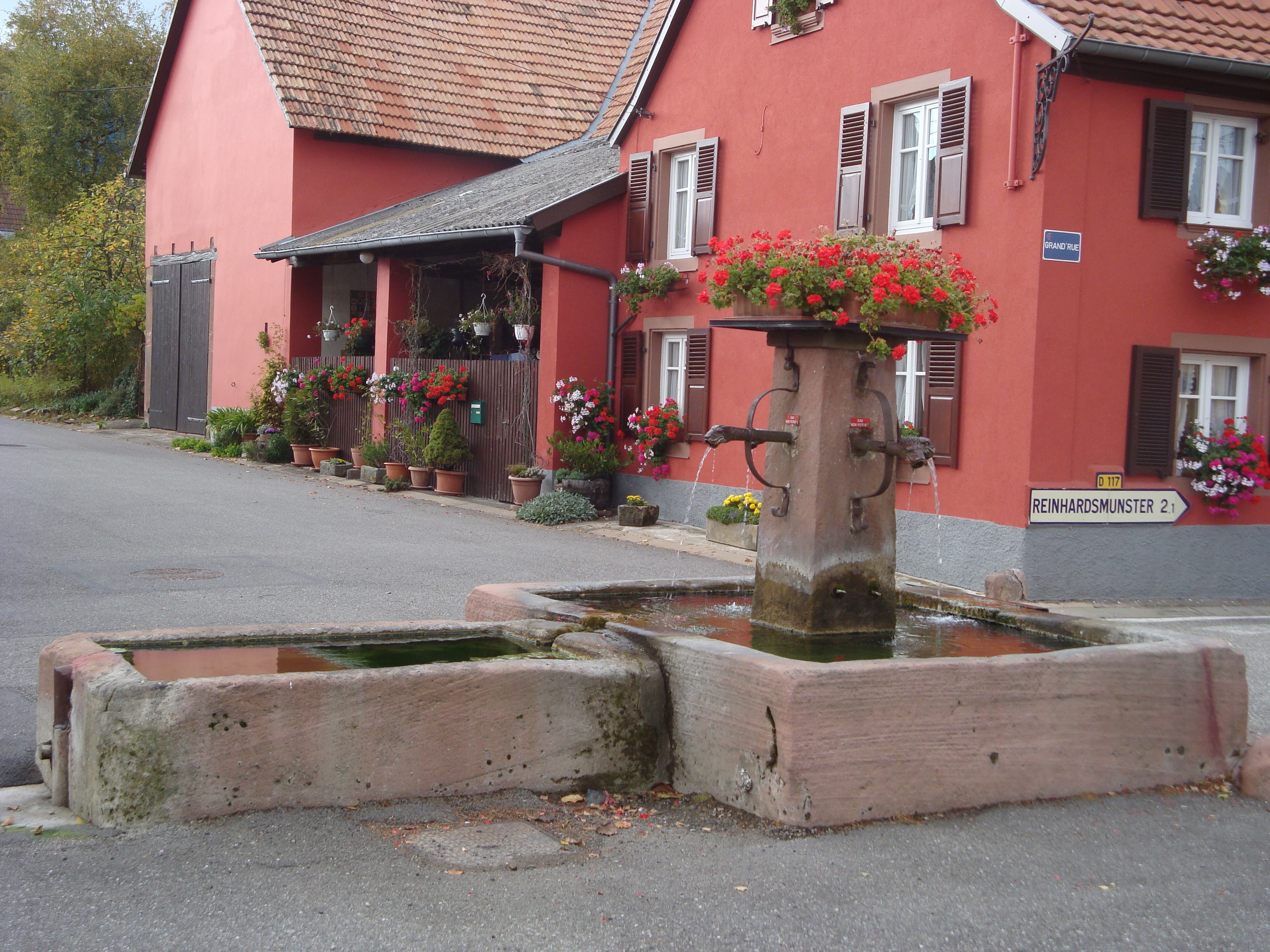 The XIX century sandstone fountain of Hengwiller, located at the crossing of the two main streets.